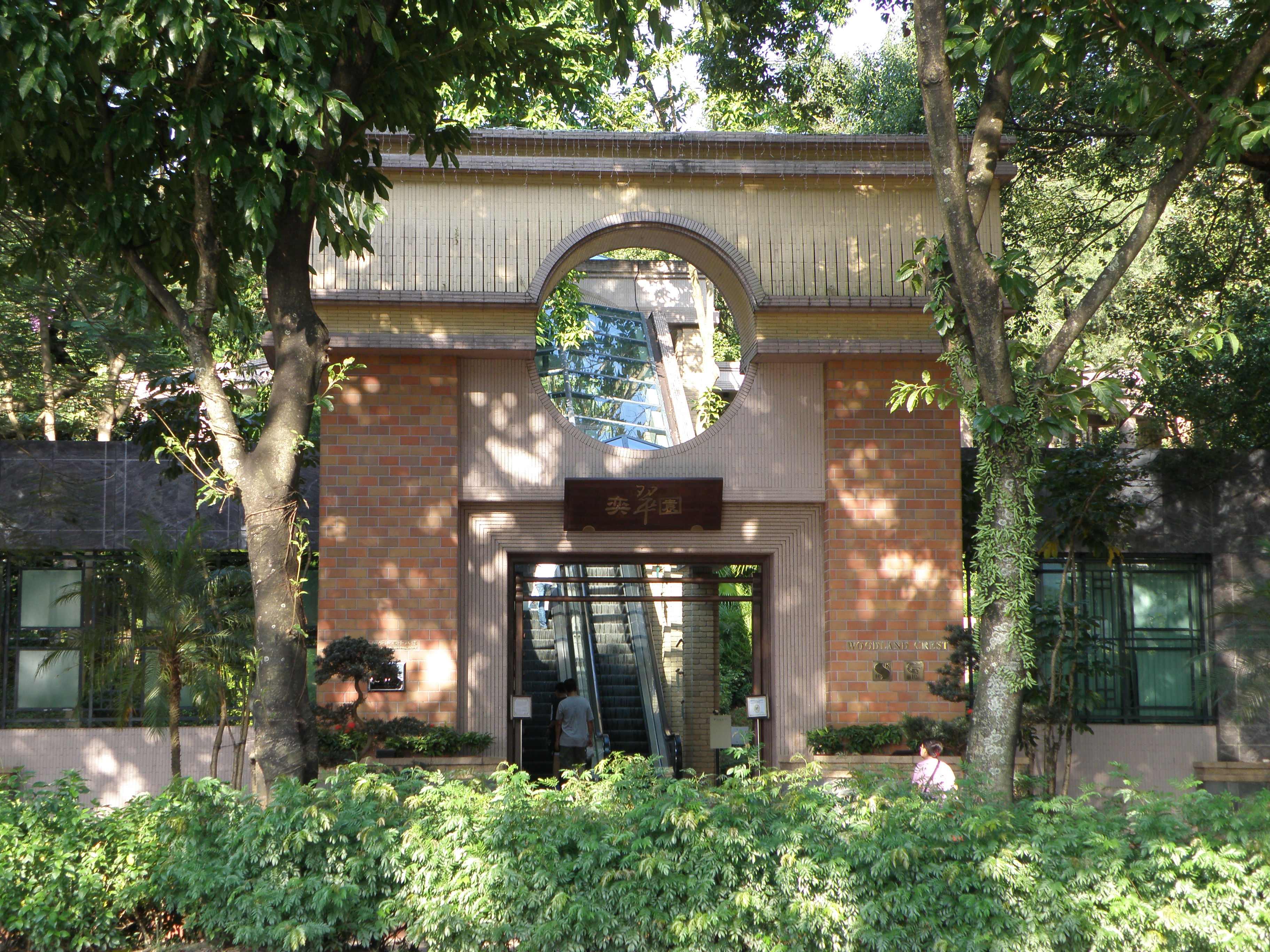 Woodland Crest residences entrance in Sheung Shui, Hong Kong.